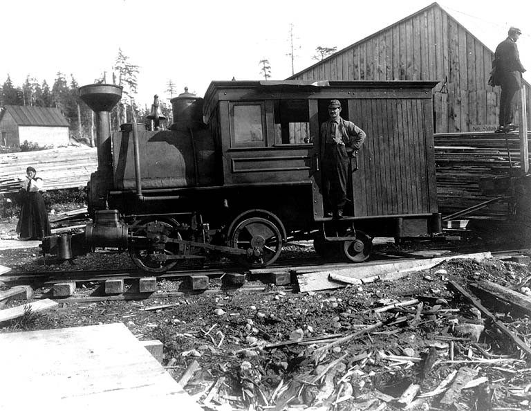 From John Cobb field notebook: Locomotive of the Yakutat and Southern Rwy Co., Yakutat, Alaska. Sept. 1, 1907 Subjects (LCTGM): Railroads--Alaska--Yakutat Subjects (LCSH): Yakutat and Southern Railway Company; Steam locomotives--Alaska--Yakutat